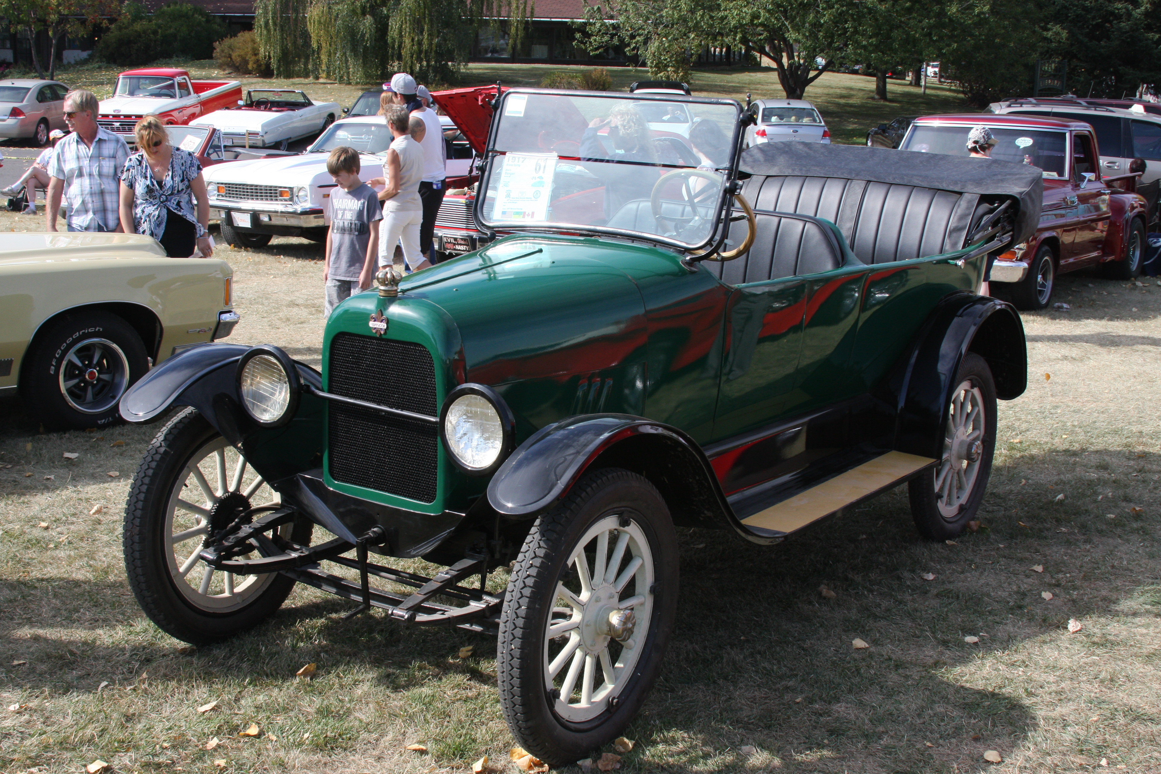 1917 Briscoe Touring - a make I don't recall seeing before. A little info on the make